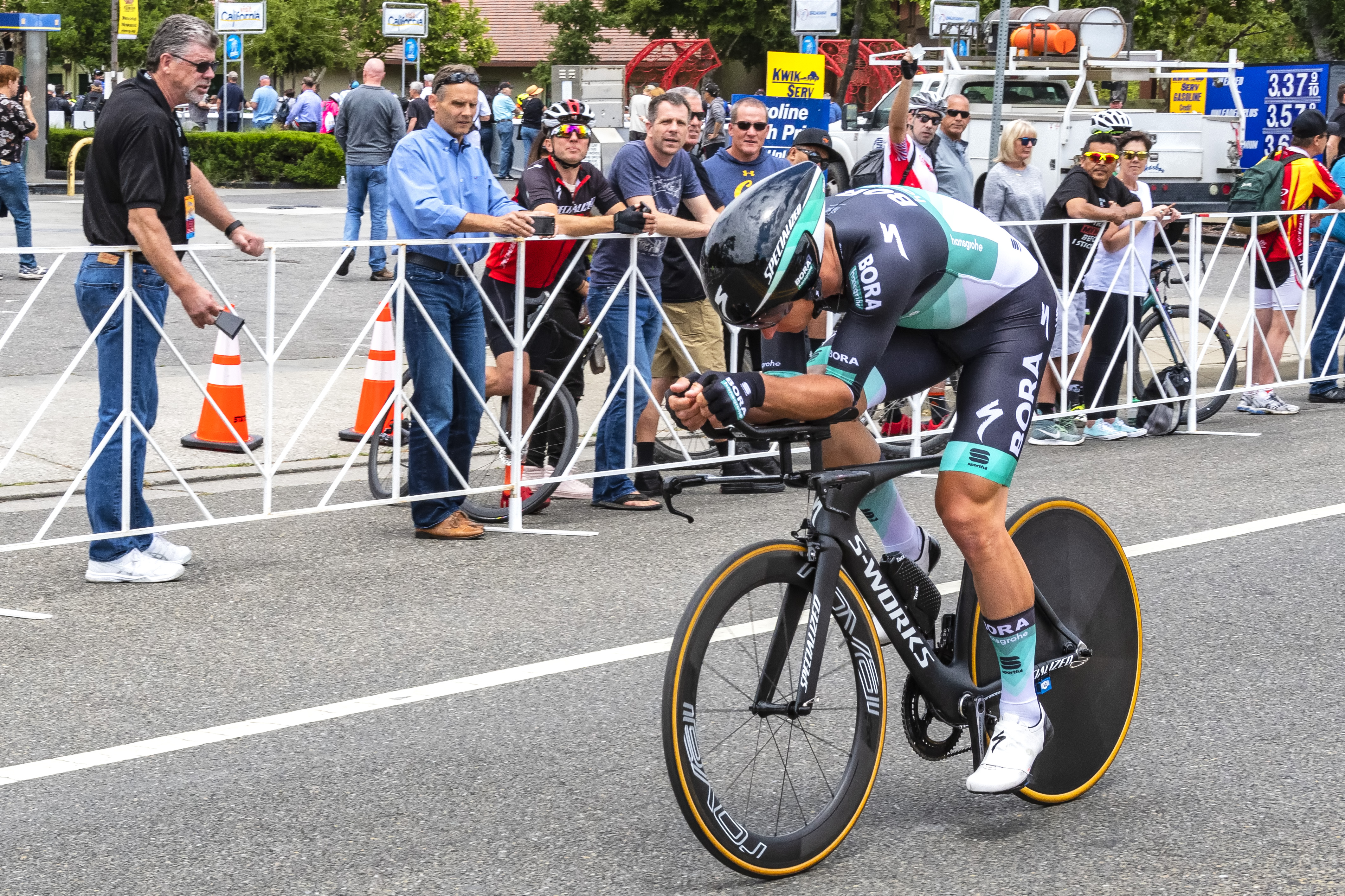 Amgen Tour of California 2018 Stage 4 Time Trial in Morgan Hill UCI World Tour